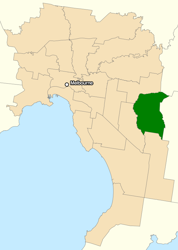 The Division of Aston (dark green) in the Greater Melbourne area. This image incorporates data that is: © Commonwealth of Australia (Australian Electoral Commission) 2014